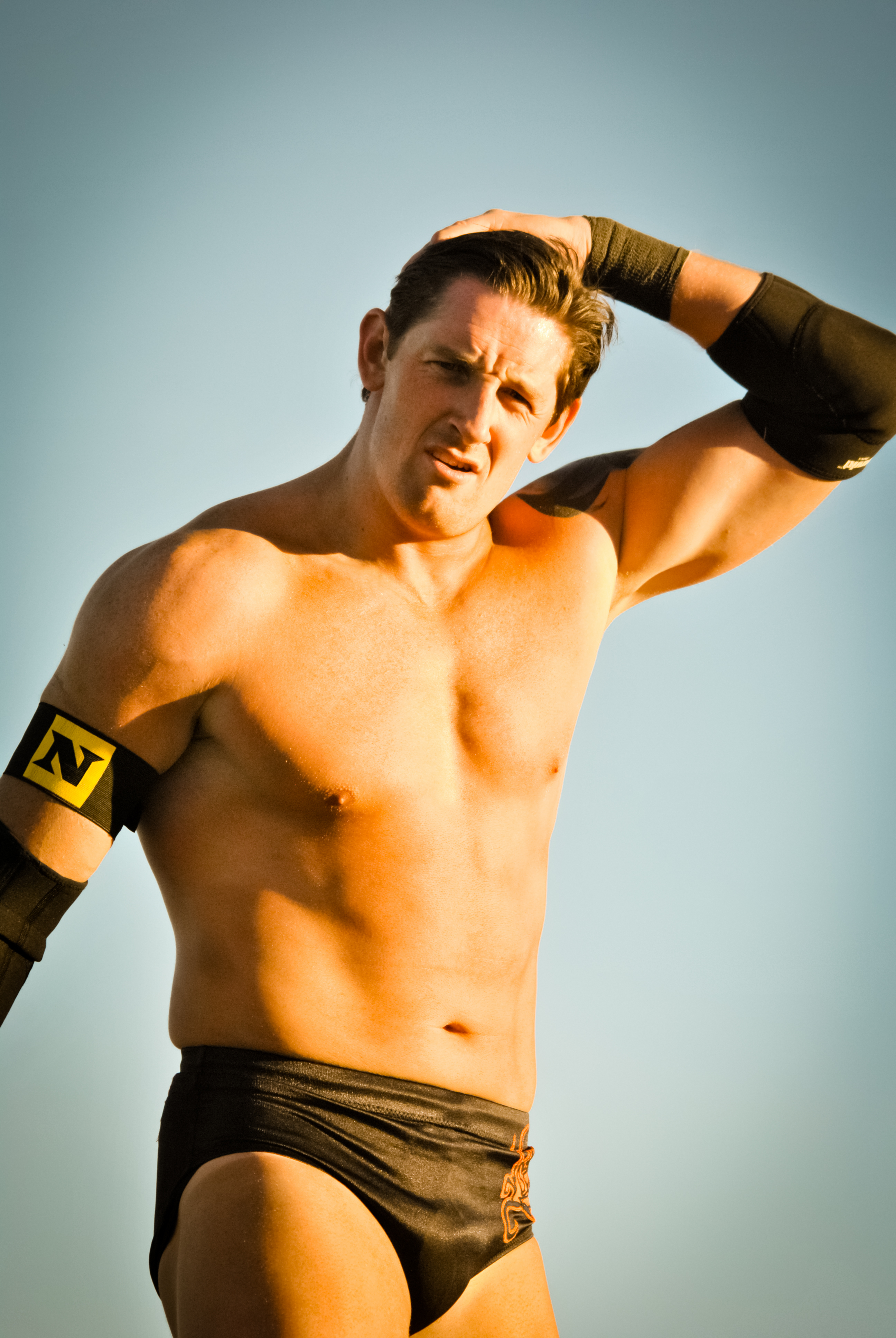 Wade Barrett during WWE's Tribute to the Troops show on December 11, 2010 in Fort Hood, Texas.